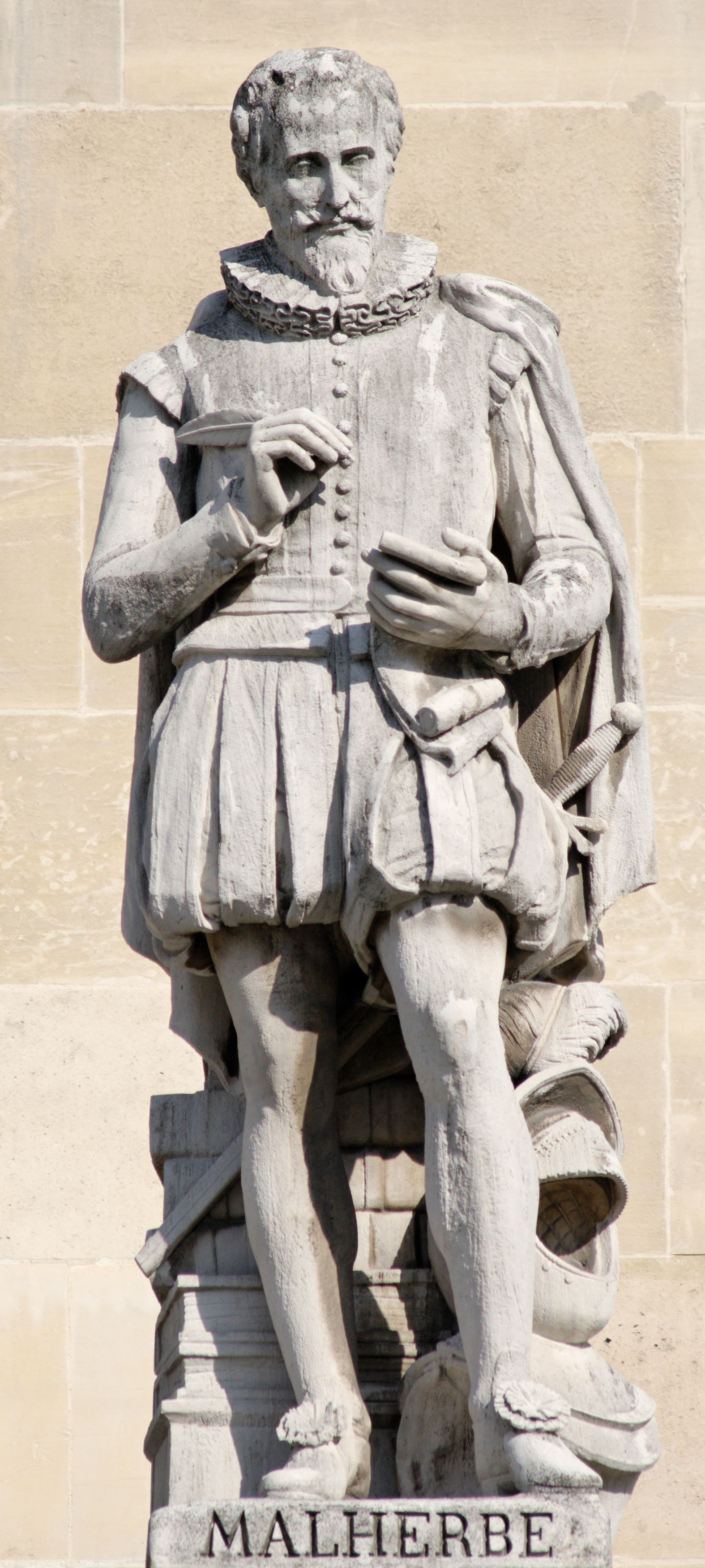 Malherbe by Jean Jules Allasseur. Stone, before 1853. 3rd statue from Pavillon Turgot to Pavillon Richelieu, Cour Napoléon in the Louvre.